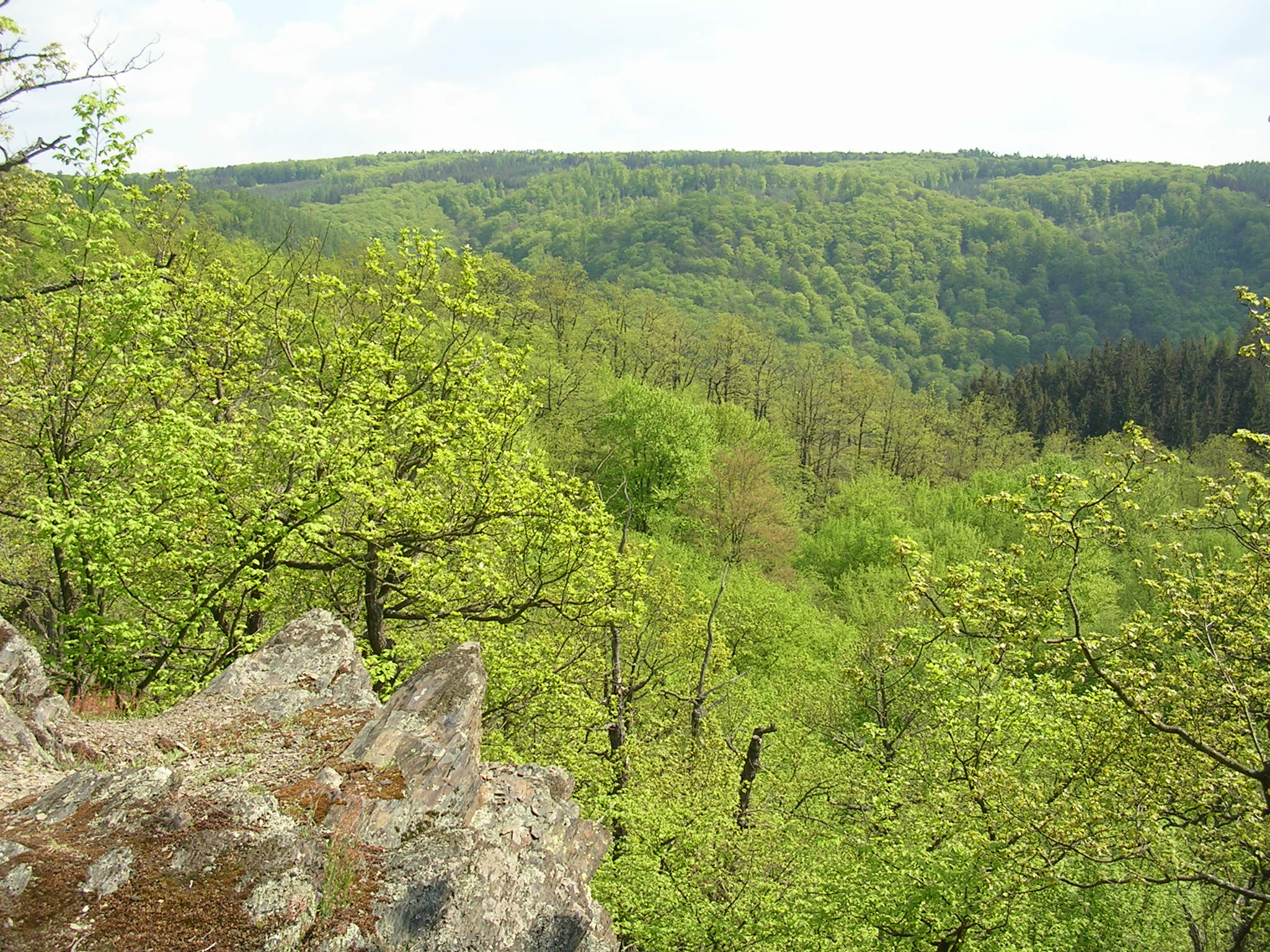 Křivoklát Forrests, the Czech Republic.